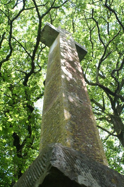 Deadmans Plack Monument. A monument erected in 1825 by the then owner of the land in Harewood Forest to commemorate the murder in 963 of Earl Athelwold, husband of Queen Elfthryth, murdered by King Edgar as he wanted to marry the Queen. (A very difficult place to find!)